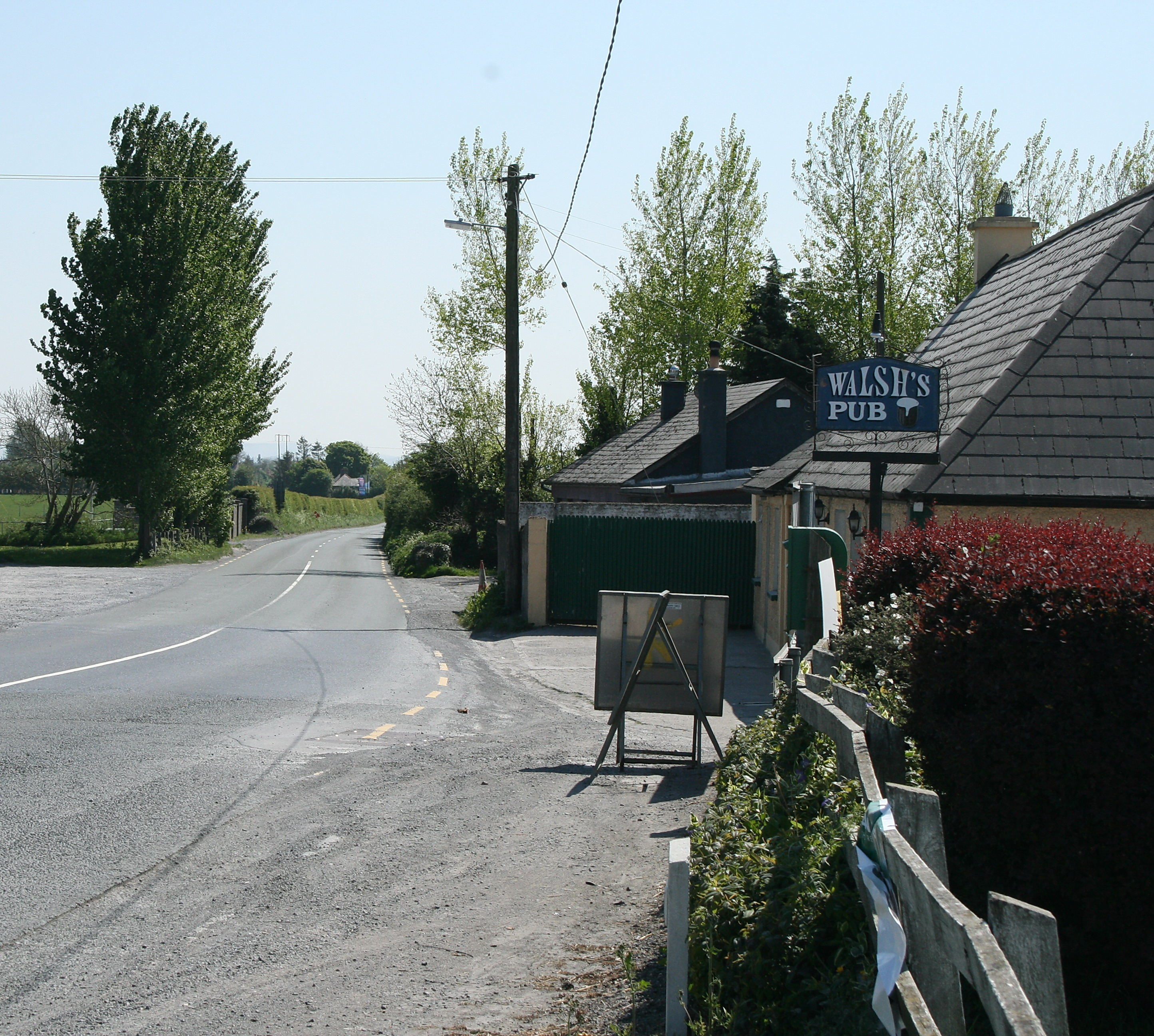 Killerig, County Carlow, near to Kilcrrig Cross Roads, Friarstown Bridge and Moatabower Bridge, Carlow, Ireland. At Killerig Crossroads, County Carlow